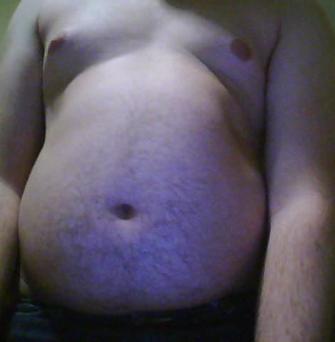 Belly of an obese teenage boy weighing 202 lbs.